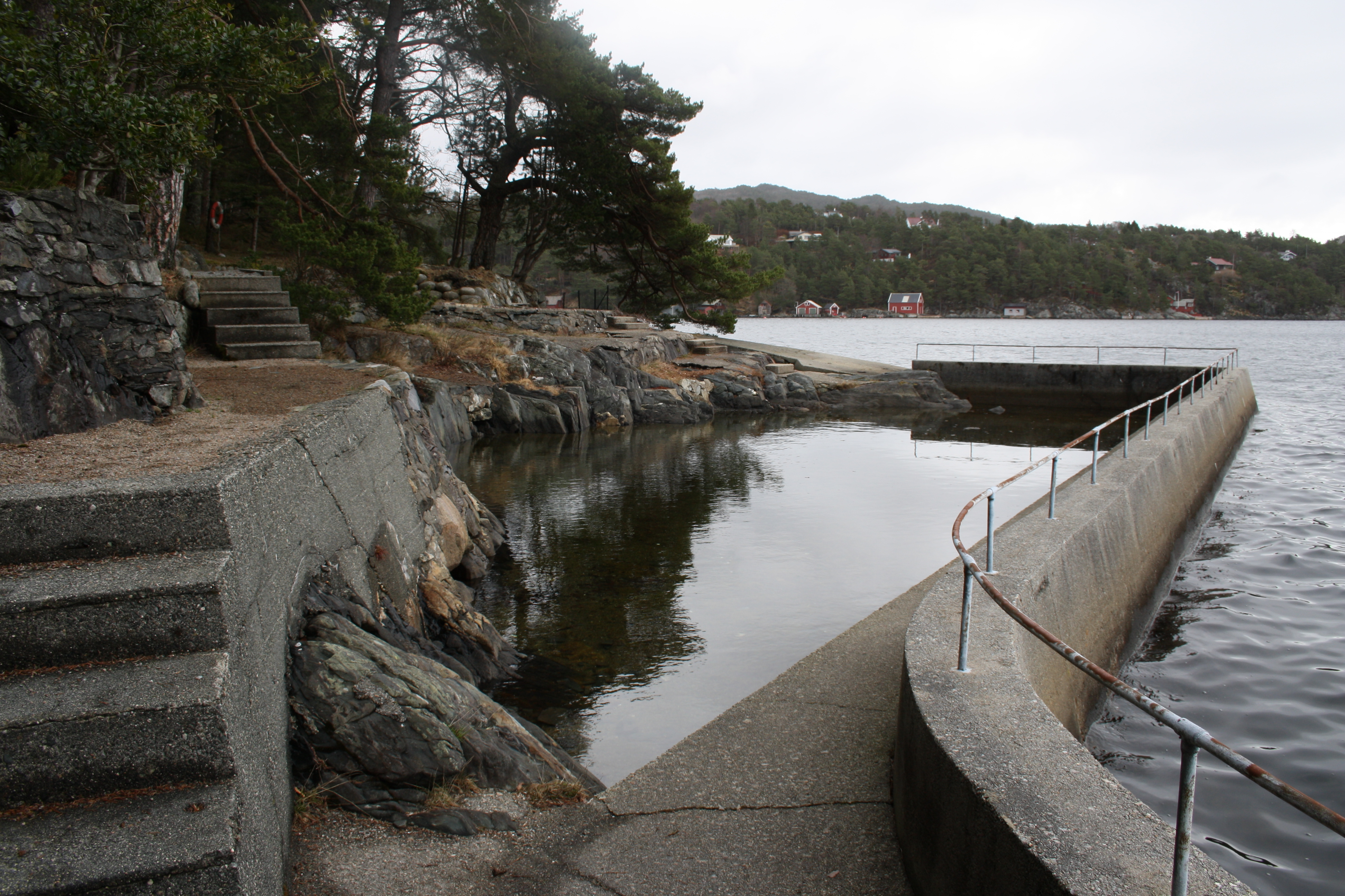 Bath, Kysthospitalet i Hagavik, Os, Hordaland, Norway